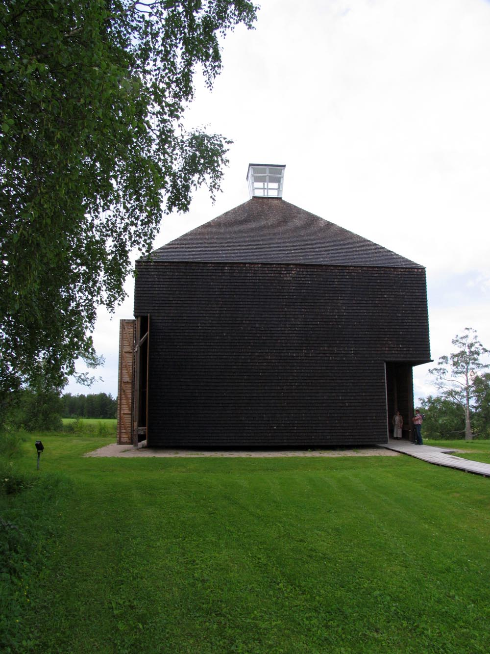 Paanukirkko, shingle church of Kärsämäki, Finland